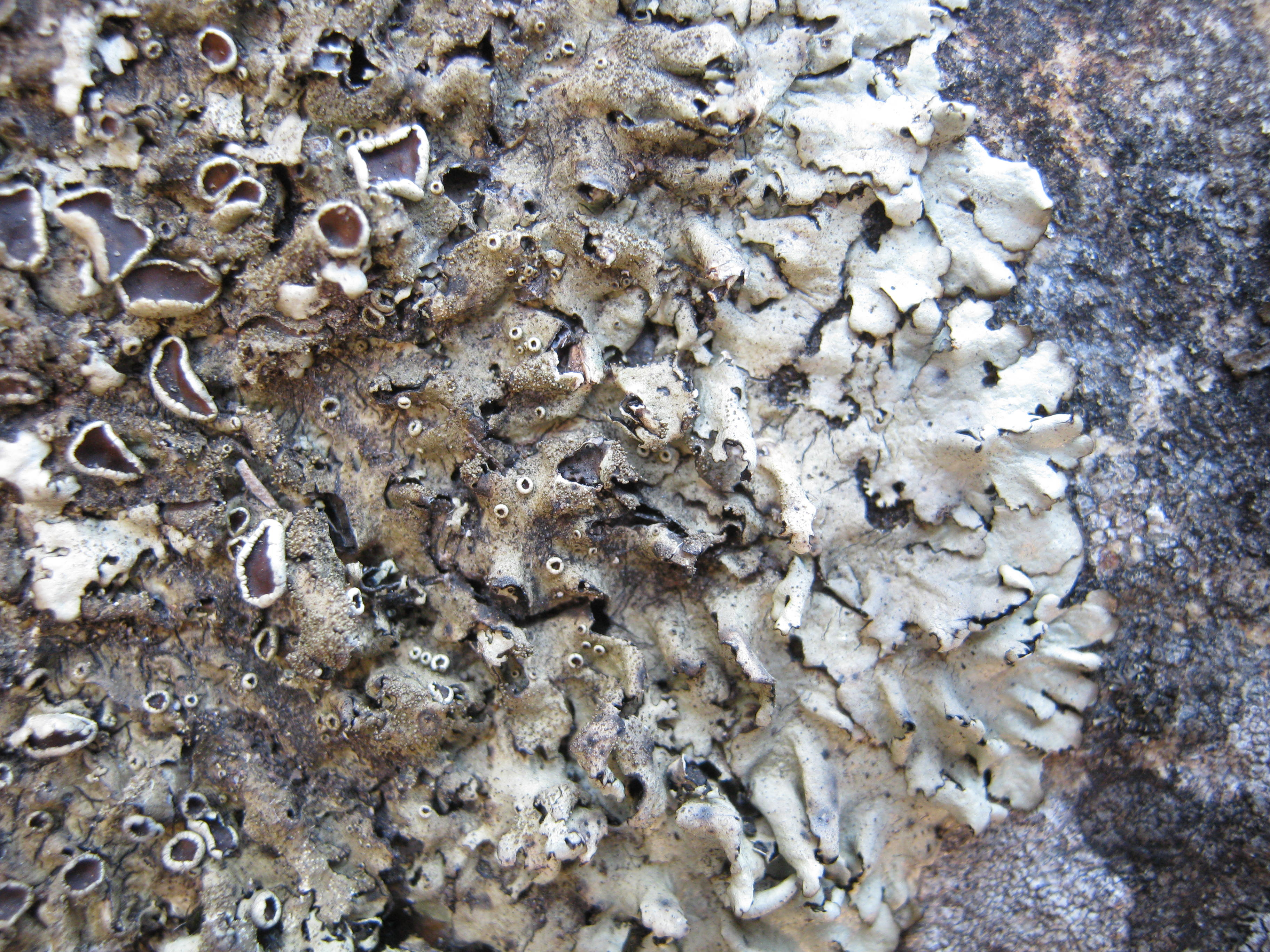 The lichen Xanthoparmelia tinctina (Maheu & Gillet) Hale. Photographed in Serra de São Mamede, Portugal.